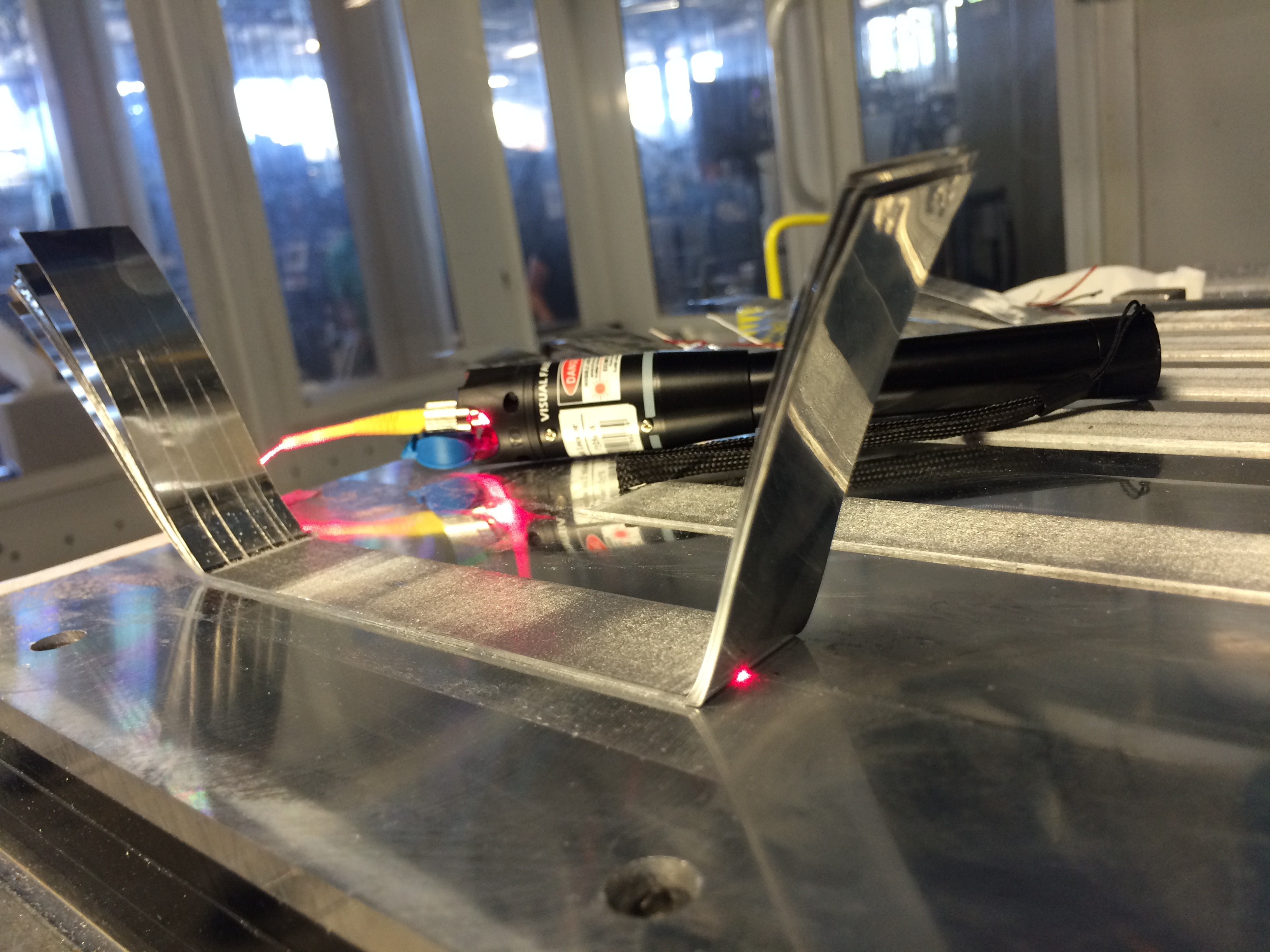 UAM example of embedding temperature sensitive components using a fiber optic cable.